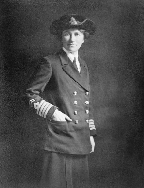 A black and white photograph of Dorothy Christian Hare while in the Women's Royal Navy Service